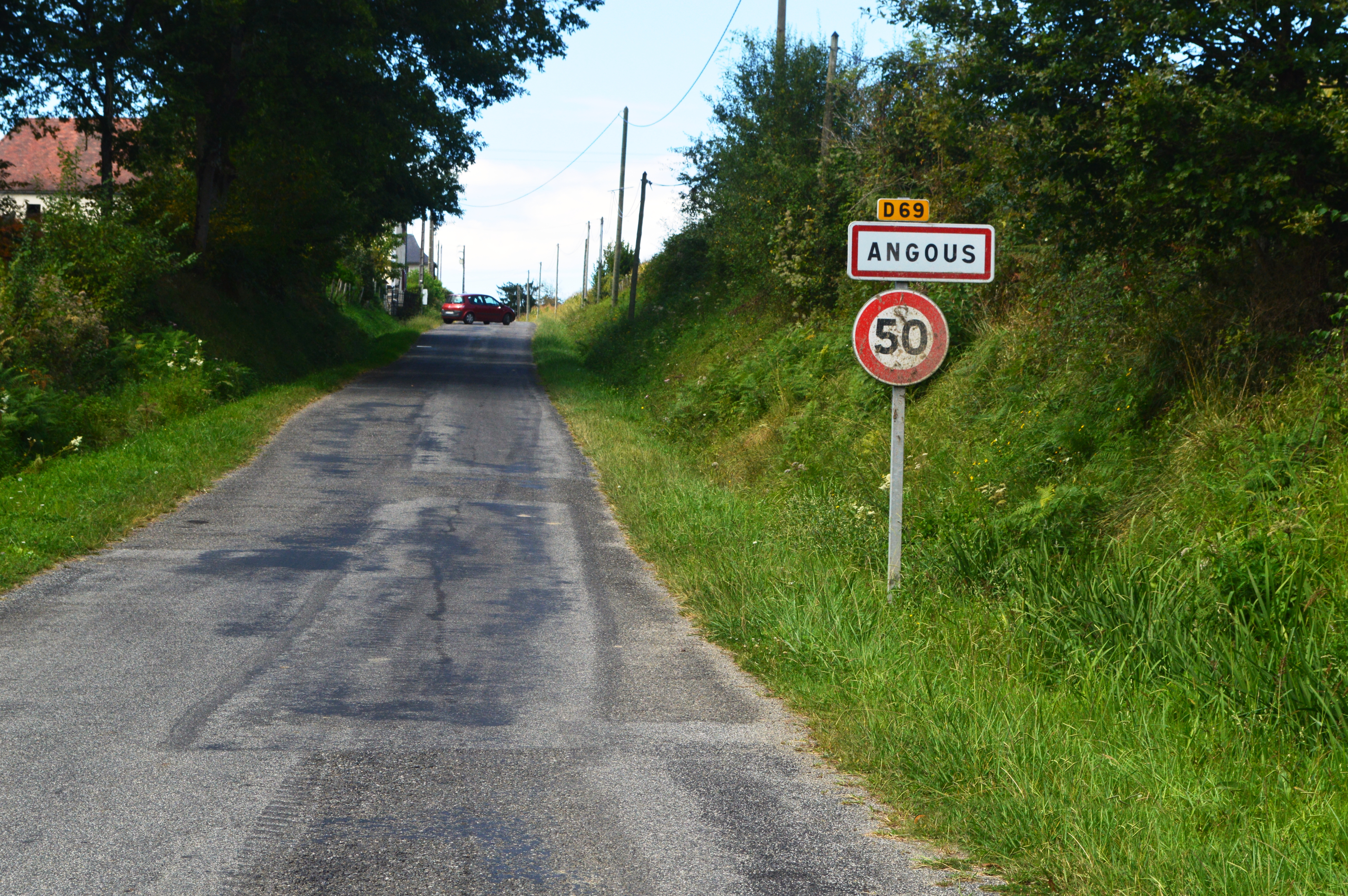 Entry to Angous